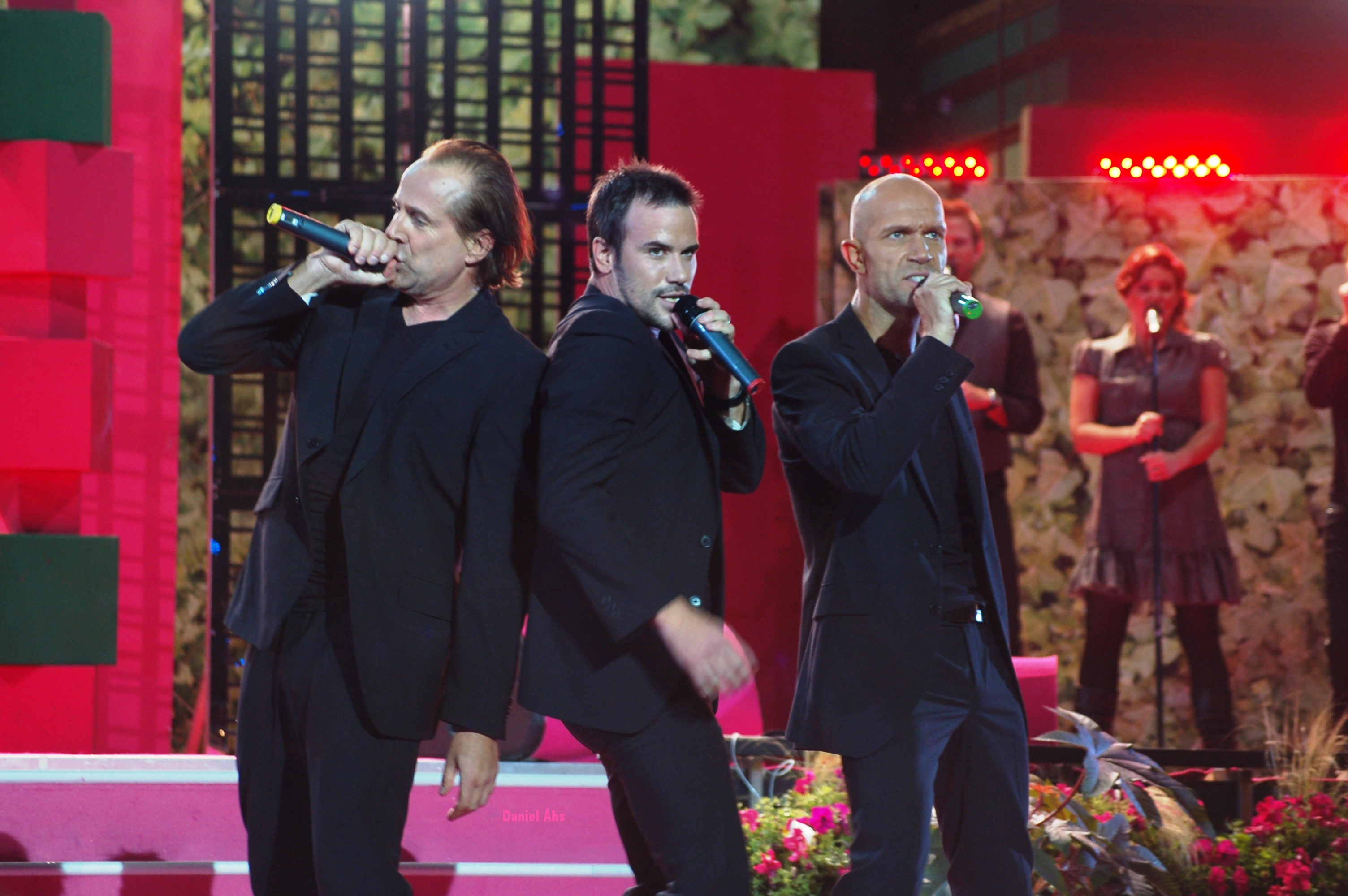 Ladies Night give you a preview of the show at Gröna Lund